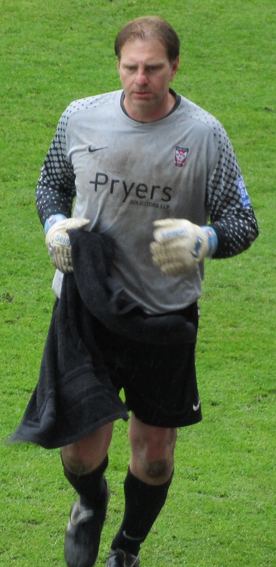 Paul Musselwhite playing for York City against Forest Green Rovers at Bootham Crescent, York on 28 April 2012